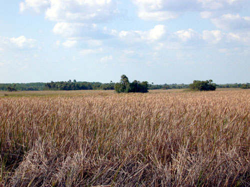 from Hardwood hammocks are localized, thick stands of hardwood trees that can grow on natural rises of only a few inches of land. In South Florida, hammocks occur in marshes, pinelands, and mangrove swamps. Hammocks may contain many different species of trees such as the sabal palm, live oak, red maple, mahogany, gumbo limbo and cocoplum. Many types of epiphytes ("air plants") and ferns can be found here as well. Wildlife in hammocks can include tree snails, raccoons, opossums, birds, snakes, lizards, tree frogs, and large animals such as the Florida panther, bobcat, and deer.